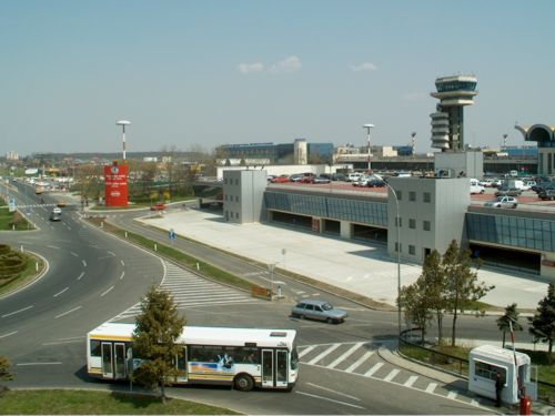 Exterior of Henri Coandă International Airport